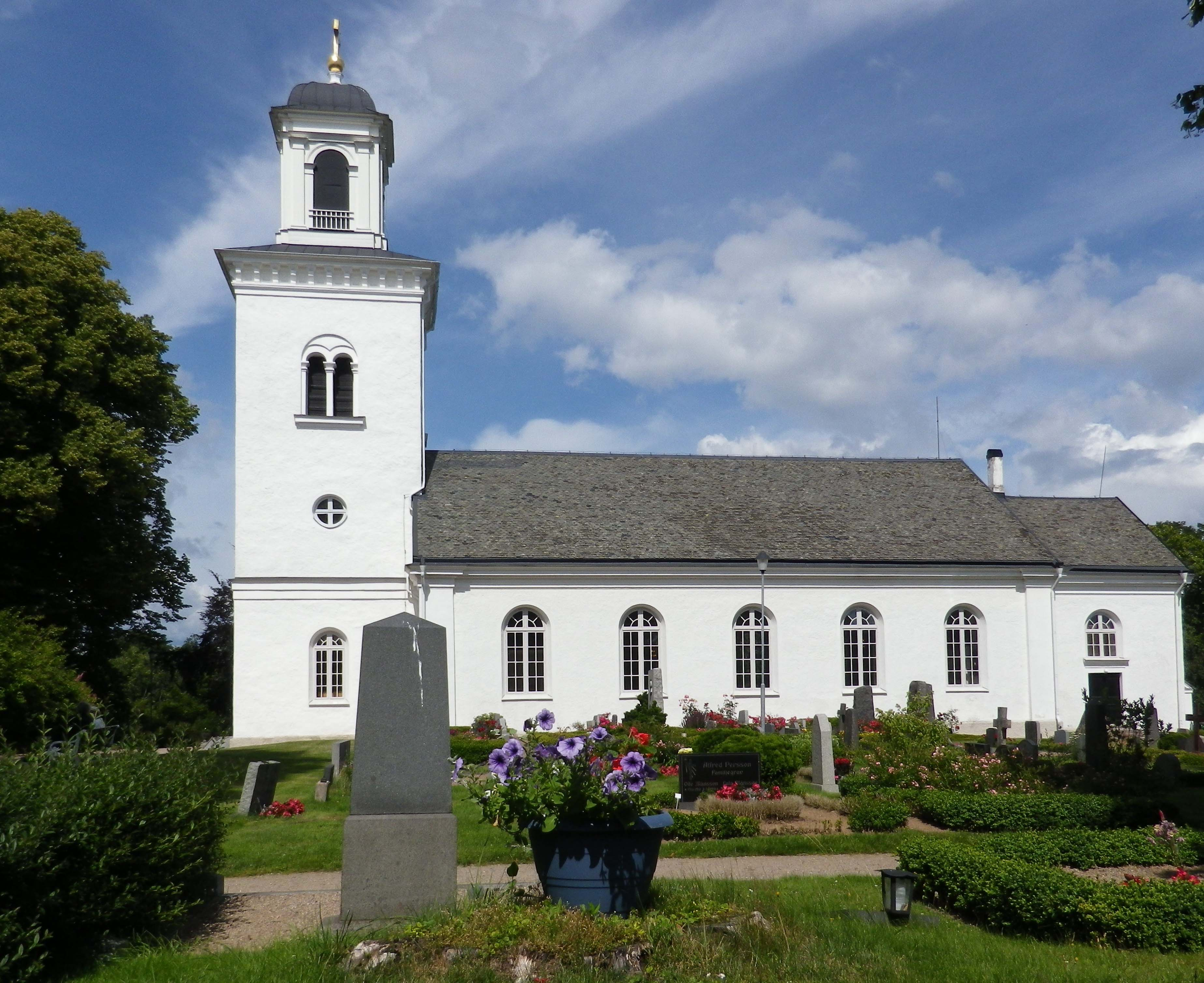 Lösen church.